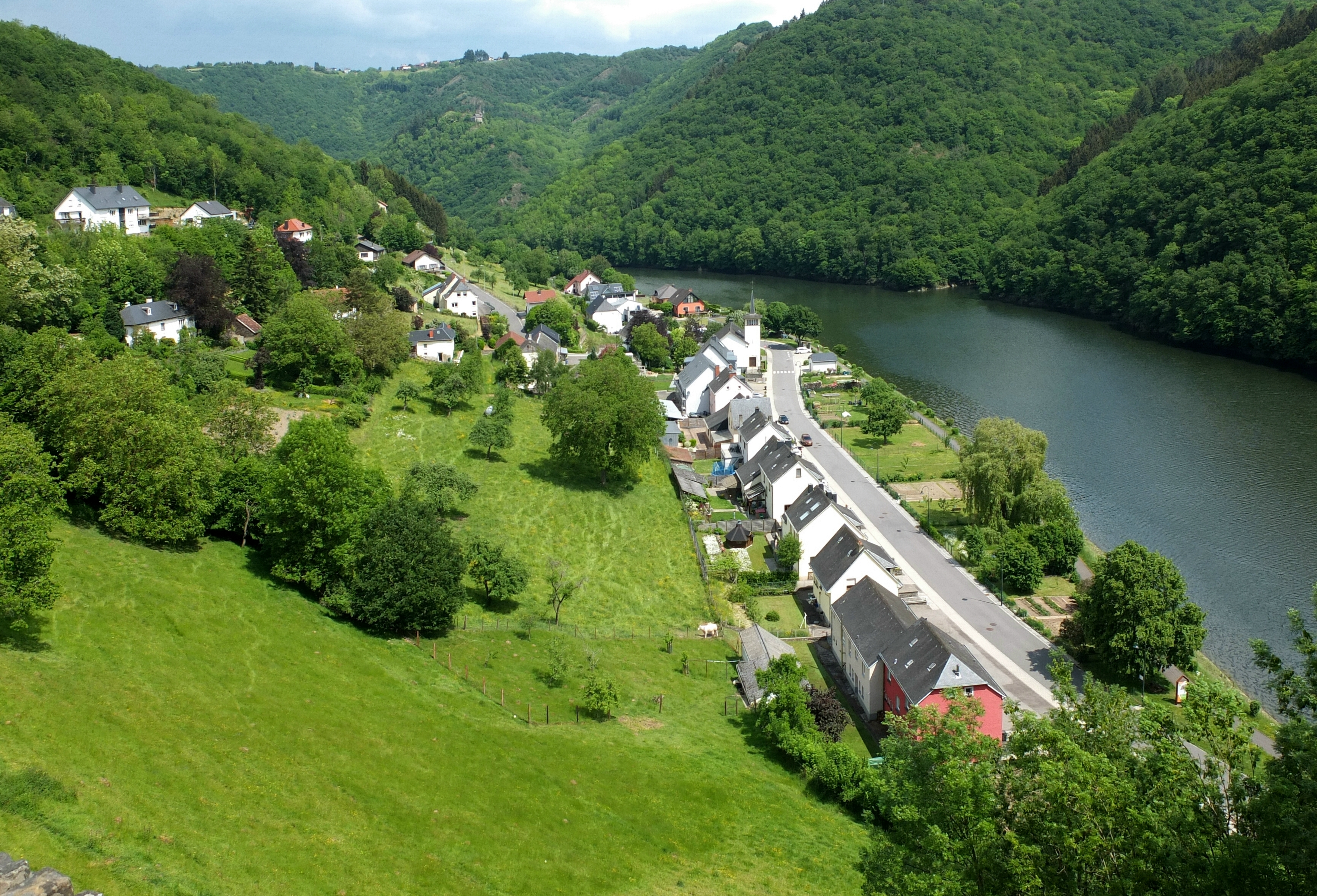 General view of Bivels, Luxembourg (view South).